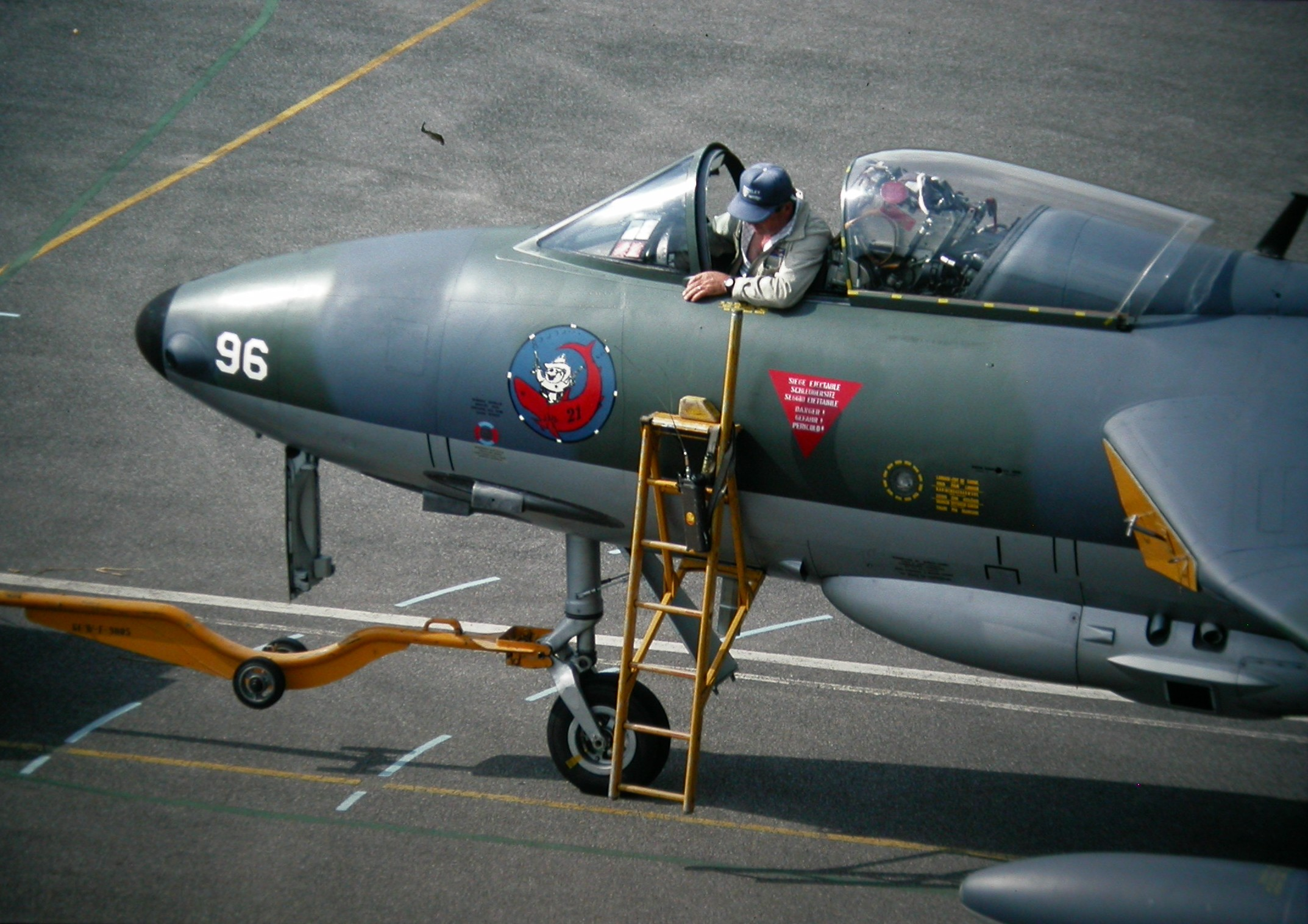 Swiss Air Force 21 Squadron Emblem